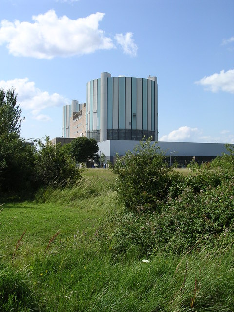 Nature trail around Oldbury Power Station